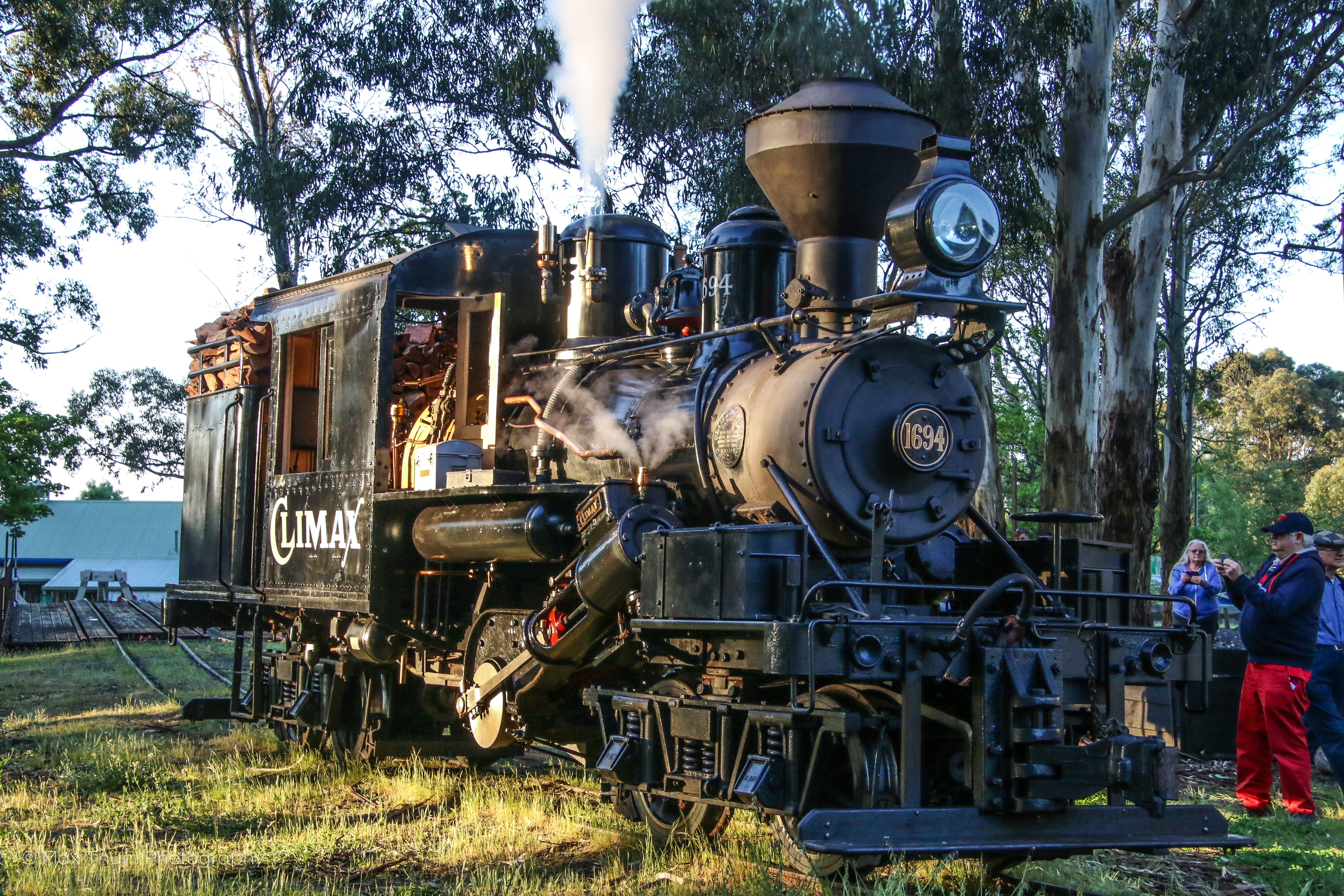 Climax 1694 at Emerald Station while on tour heading out on a special charter service.